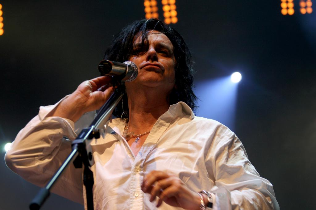 Steve Hogarth, lead singer of progressive rock band "Marillion" onstage at Marillion's weekend festival in Montreal Canada, April 2009.